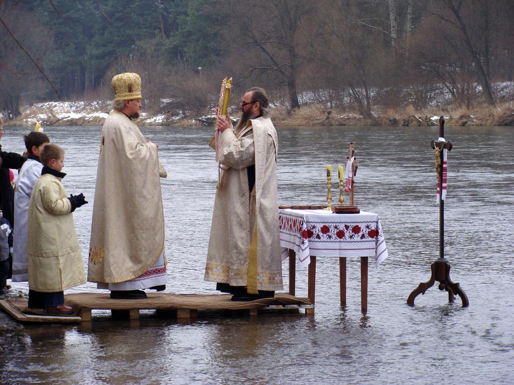 Sanok, Blessing of the holy water at San River.